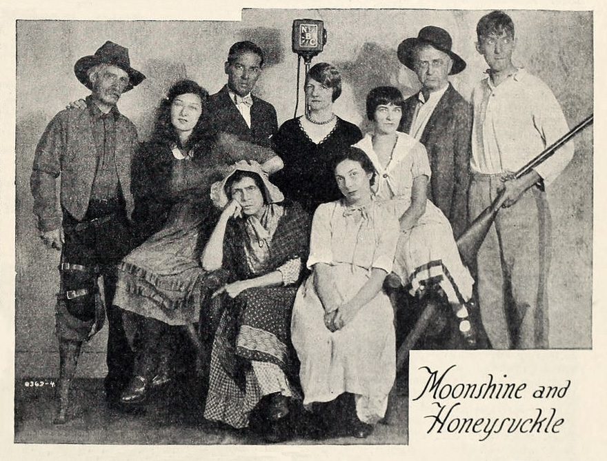 Original caption: “No feature in popular favor has suffered more changes of time and temporary removals from the air than “Moonshine and Honeysuckle,” LULA VOLLMER’s series of dramatic sketches of love and clan warfare in the Southern mountains. At this writing it is scheduled for Sundays at 2:00 P.M. over WEAF and associates. The cast (left to right) is as follows: Claude Cooper, Ann Elstner, Gerald Stopp (NBC Production Manager), Lula Vollmer, Jeannie Begg, John Milton, Louis Mason; (seated) Ann Sutherland and Sara Haden.”